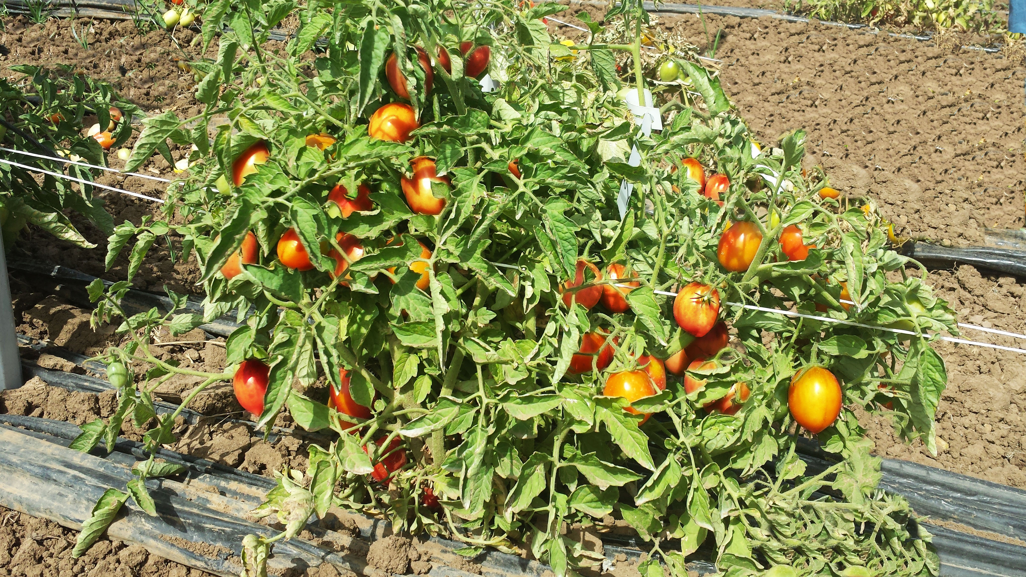 Variety of tomato Fiaschello Battipagliese